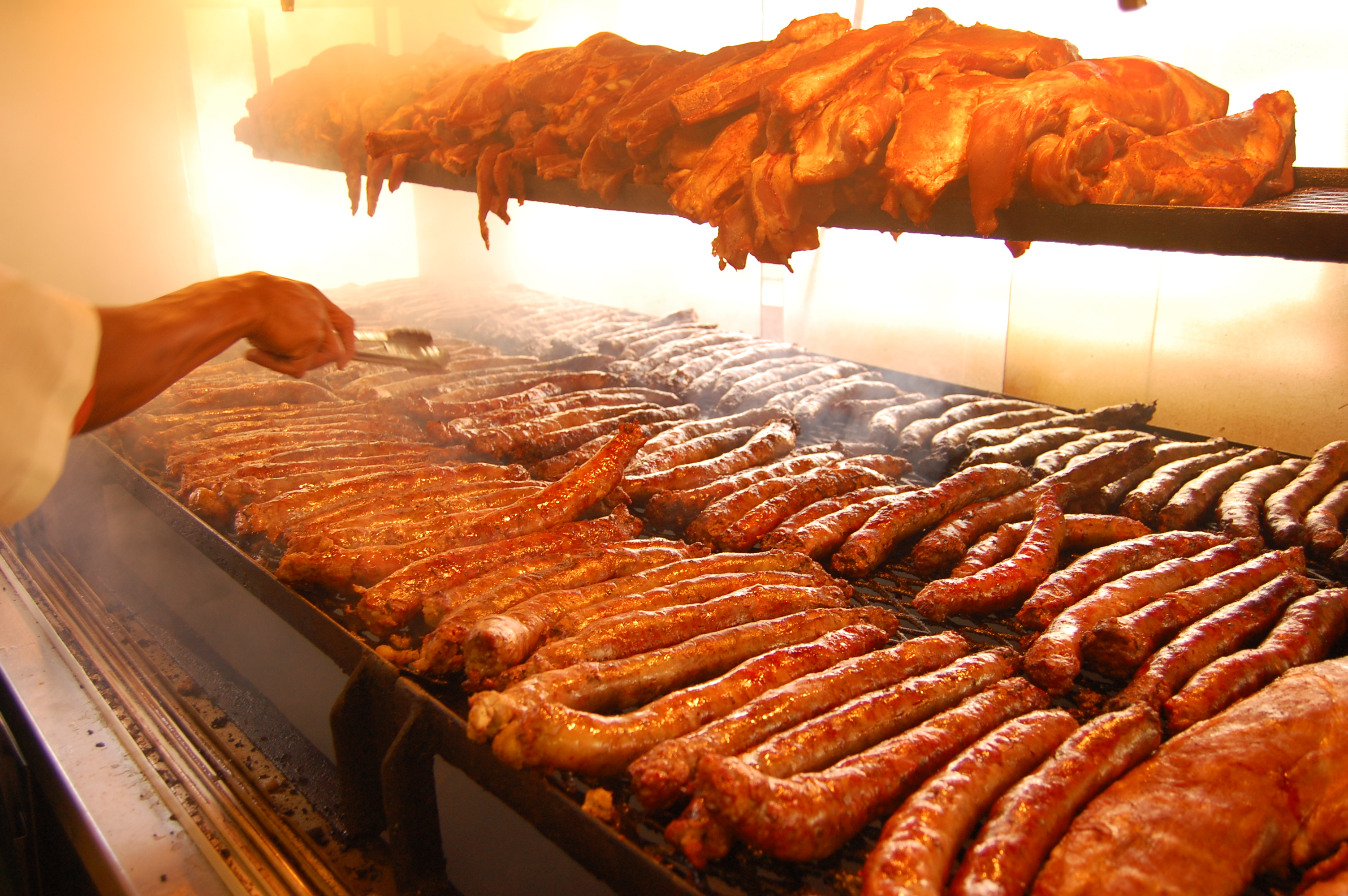 Lem's Bar-B-Q; Chicago, IL Photo by Amy C Evans, SFA oral historian March 2008